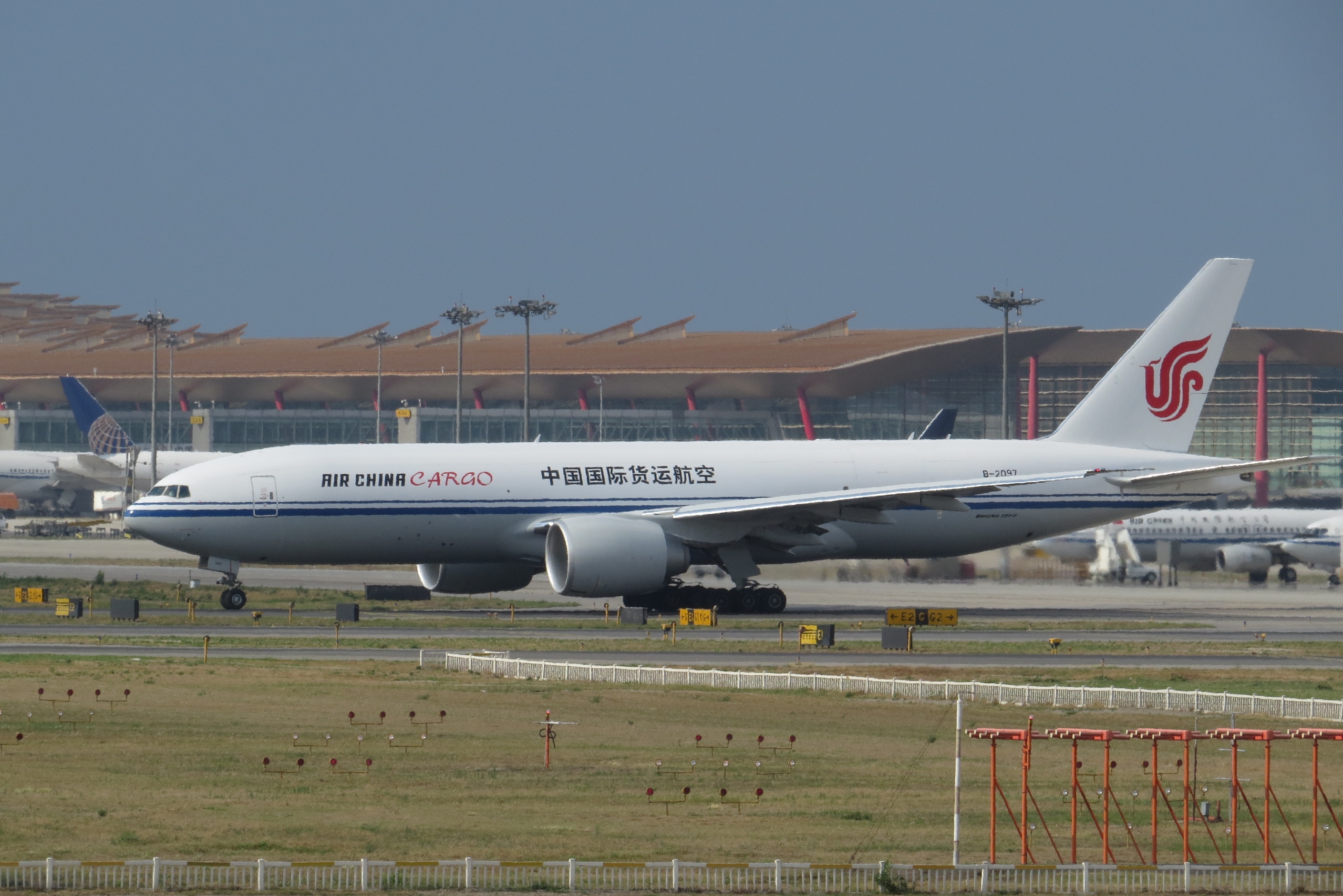 Off to ZSPD